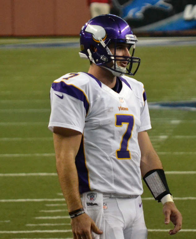 Christian Ponder shown at Ford Field in Detroit Michigan